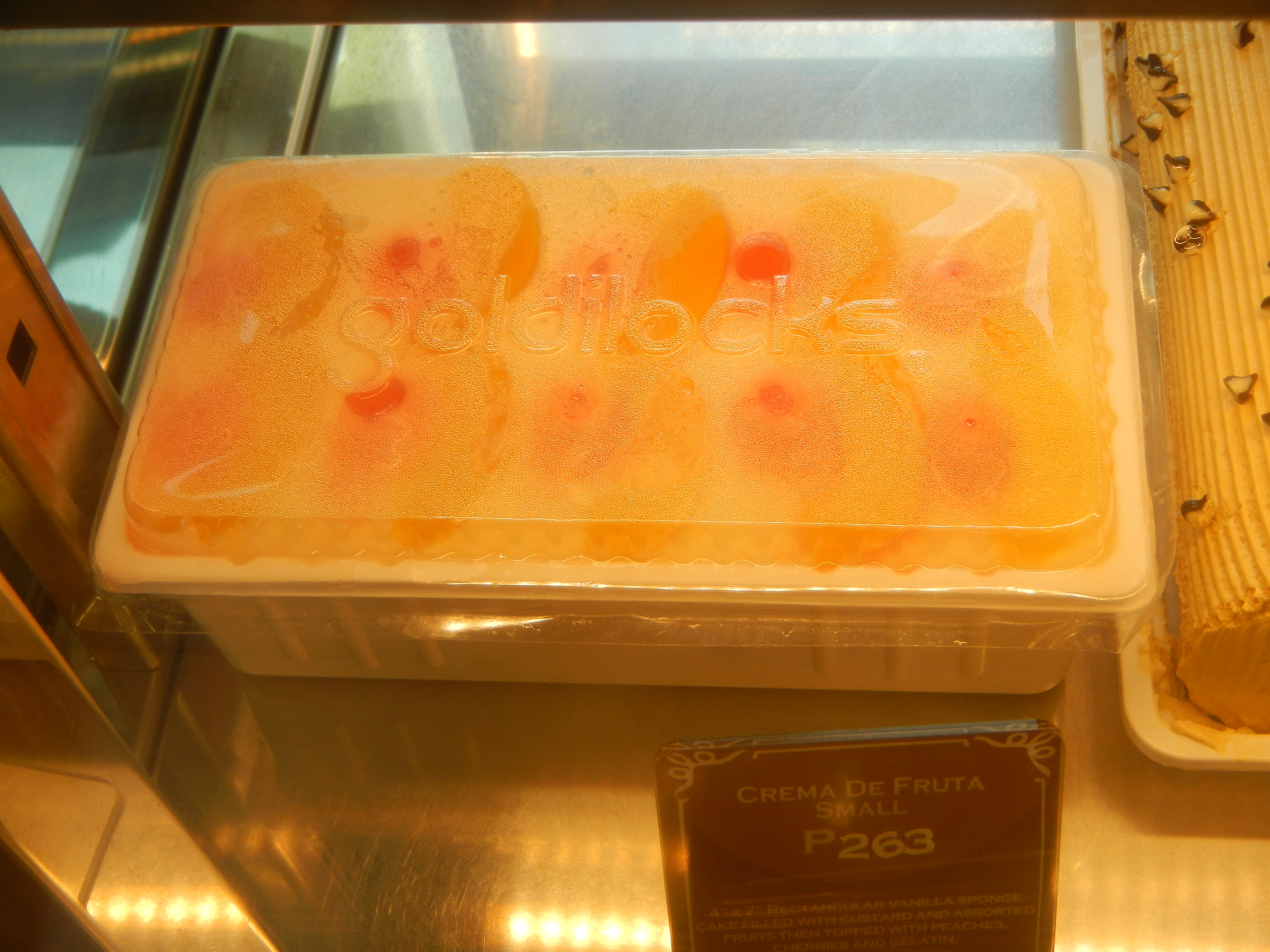 Cuisine of Bulacan Food Cakes Delicacies; Mami soup and Pancit Malabon of Norma's Pancit Luglug, Navotas City and Cakes of the Philippines Goldilocks Bakeshop (Note: Judge Florentino Floro, the owner, to repeat, Donor Florentino Floro of all these photos hereby donate gratuitously, freely and unconditionally all these photos to and for Wikimedia Commons, exclusively, for public use of the public domain, and again without any condition whatsoever).